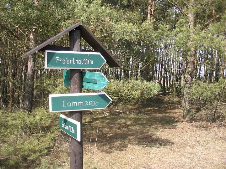 Belziger Landschaftswiesen („territory grassland near the town Belzig“) in Brandenburg, small pinewood